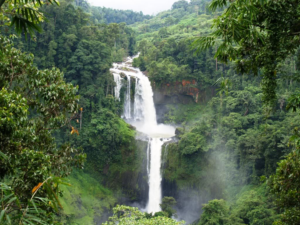 Limunsudan Falls are believed to be the Philippines' highest waterfall at 870 feet, located in Barangay Rogongon, Iligan City, in the Province of Lanao del Norte.